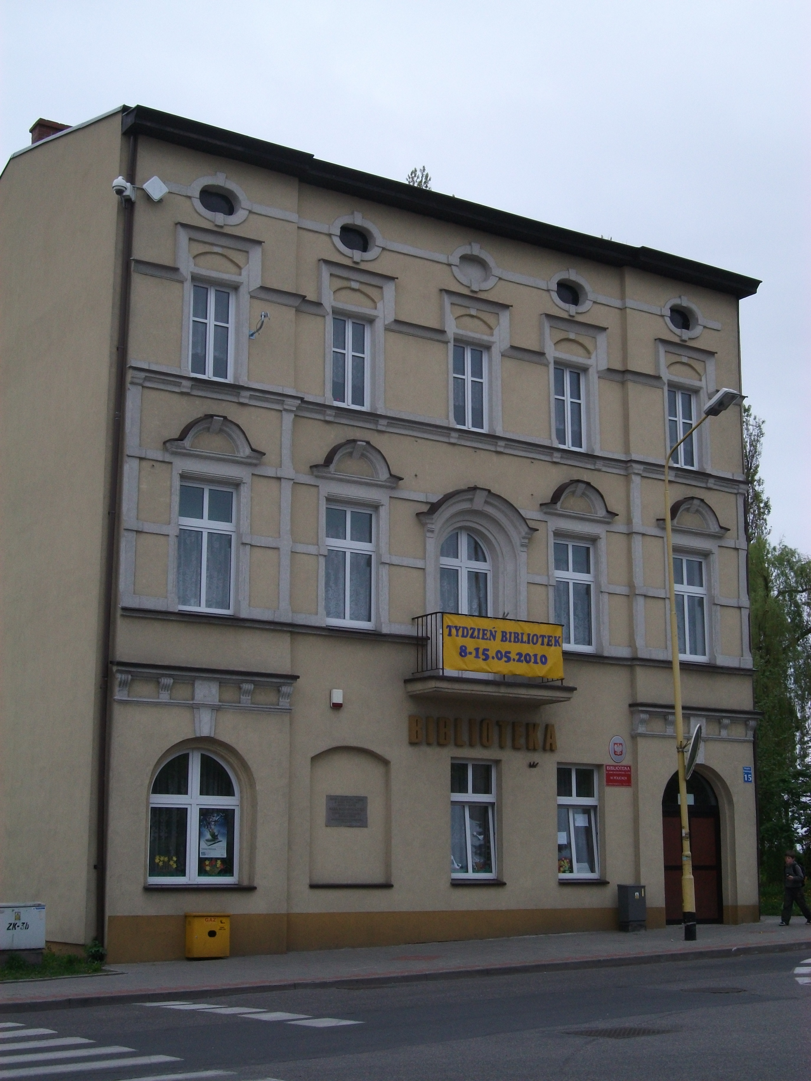 The Week of Libraries, The Library in The Old Town of Police